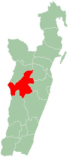 Map of Ambatondrazaka district